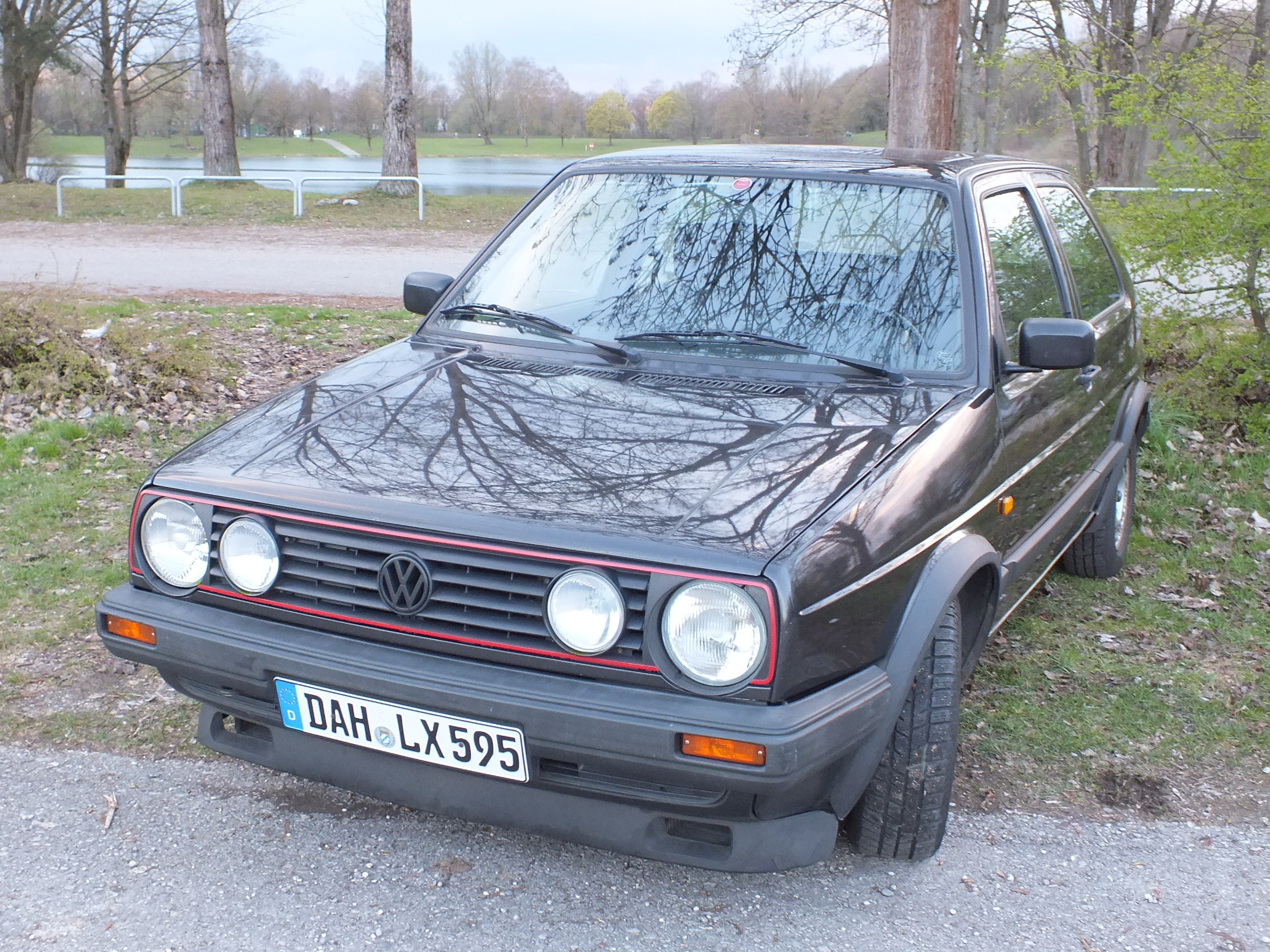 see file name